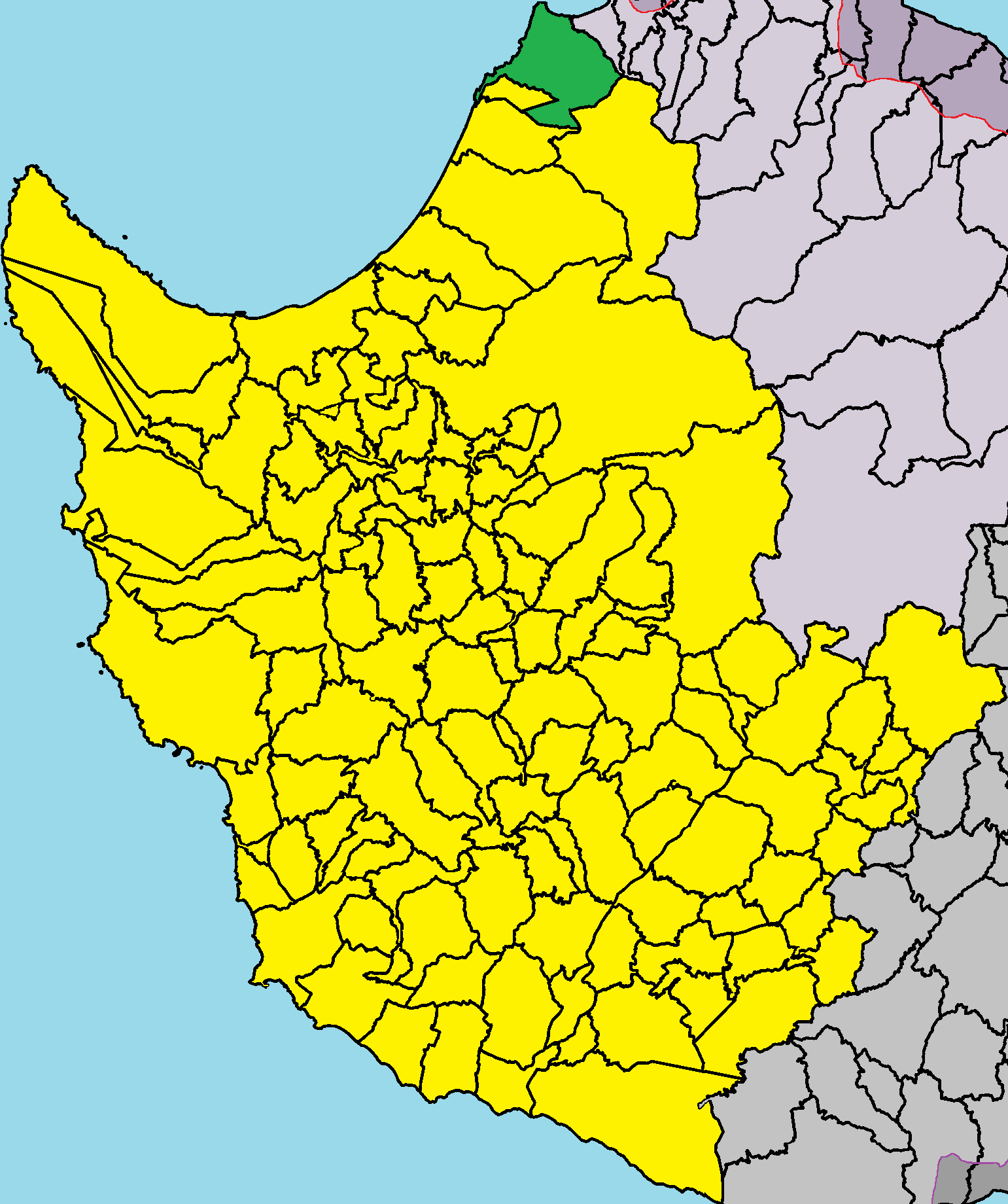 Pomos in Paphos District.